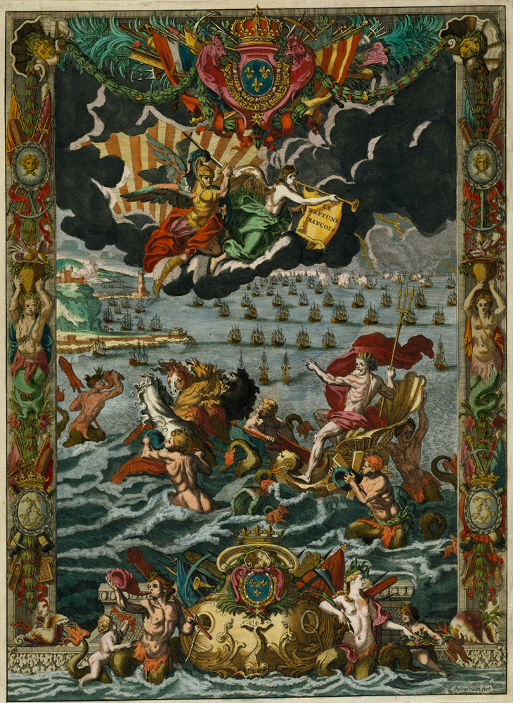 Frontispiece to "Le Neptune françois". Engraved by Jan Van Vianen. Nautical atlas "Le Neptune françois ou Atlas Nouveau des Cartes Marinesà l'usage des armées du roy de la Grande Bretagne" is one of the most elaborately decorated atlases ever published. Printed in Amsterdam by Pierre Mortier in 1693, this sea atlas reproduced the latest maps of the coast of western Europe by the French Académie Royale des Sciences. Three parts in one volume, large folio (640 by 530mm). This monumental atlas is made up of three works: 'Le neptune François'; 'Cartes marines a l'usage des armées du Roy de la Grande Bretagne'; and 'Suite du neptune François'. The first two parts were first published by Mortier in 1693, the third was issued by him in 1700.